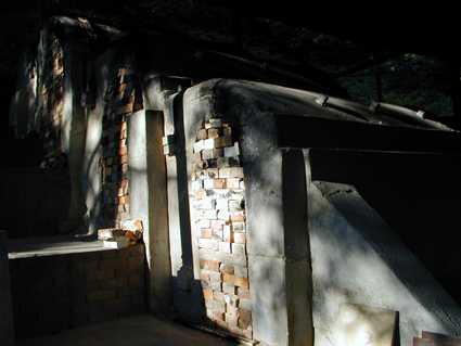 Noborigama Seto chamber openings.